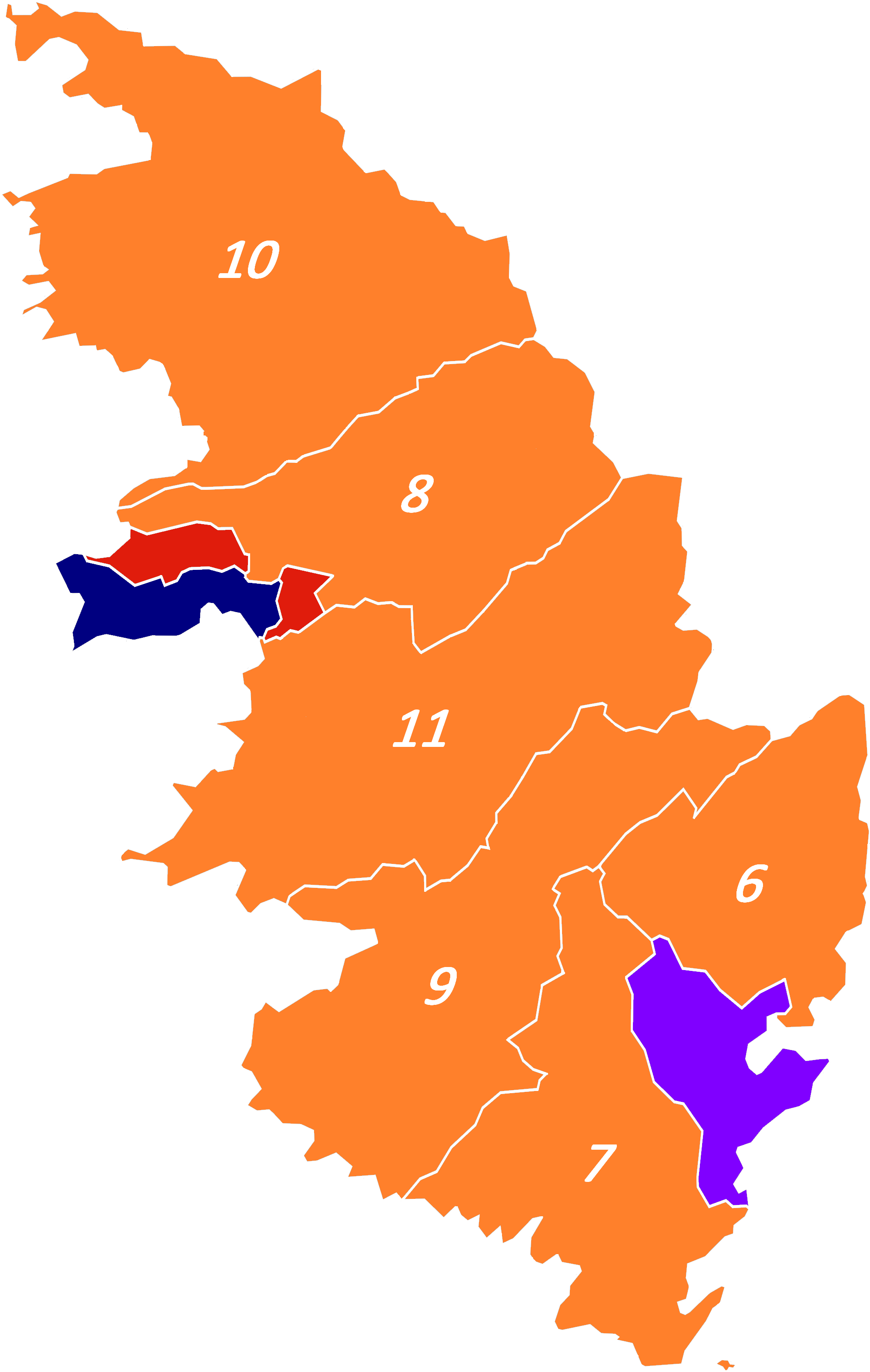 Map of the 11 electoral cantons of the French department of Corse-du-Sud, made official in 2015 (marked blue Ajaccio includes cantons Ajaccio-1, Ajaccio-2, Ajaccio-3, Ajaccio-4 and partly Ajaccio-5, the other part of which marked red; marked violet is a commune Porto-Vecchio separated between cantons Grand Sud and Bavella).